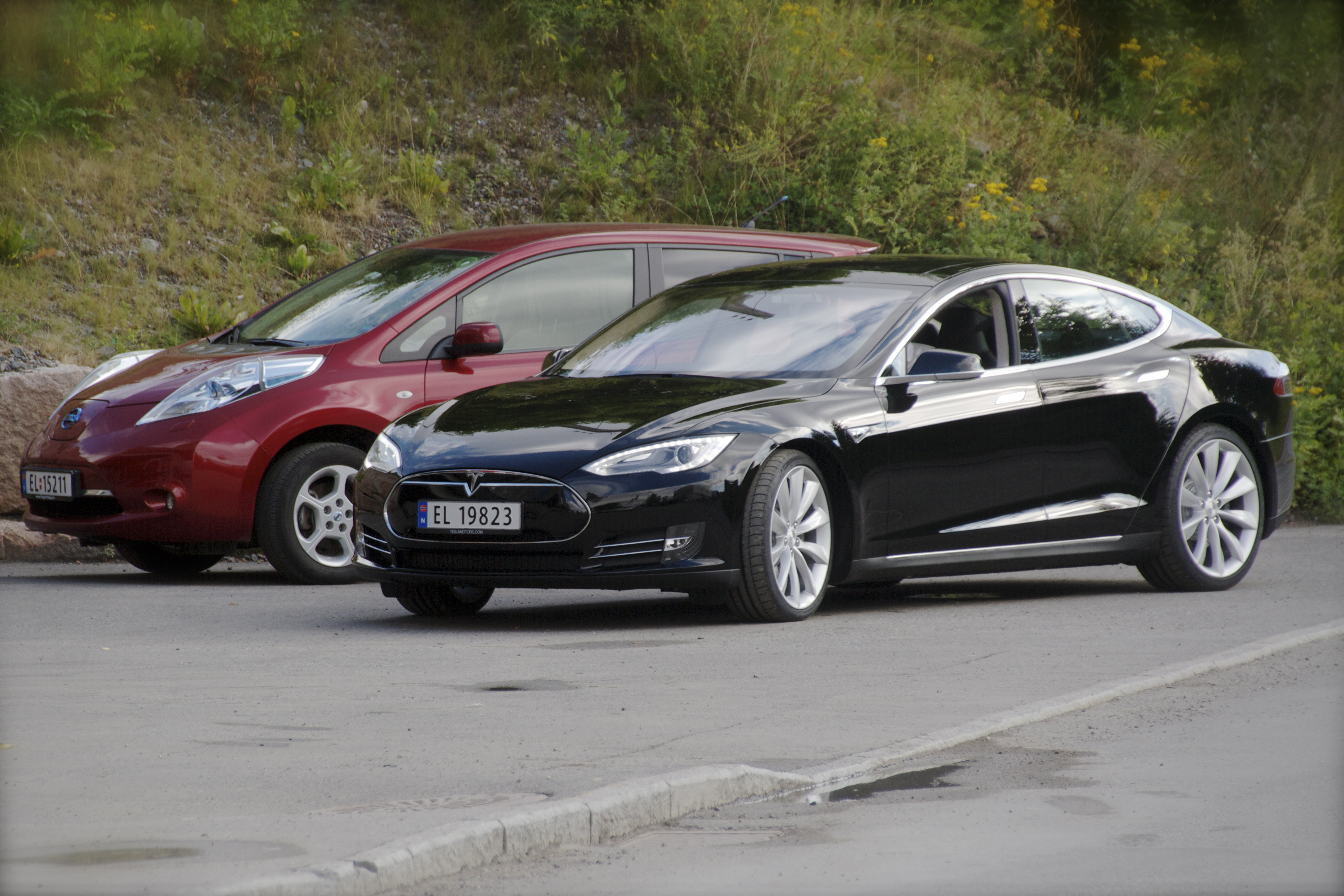 Tesla Model S (front) and Nissan Leaf (back) in Norway